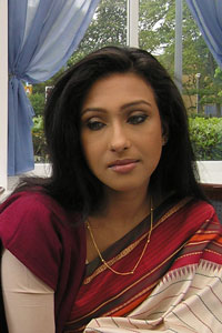 Photo of Rituparna Sengupta (actress) taken at the Osterley Hotel, London on the sets of "Aanuranan"